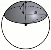 Spherical Cap diagram